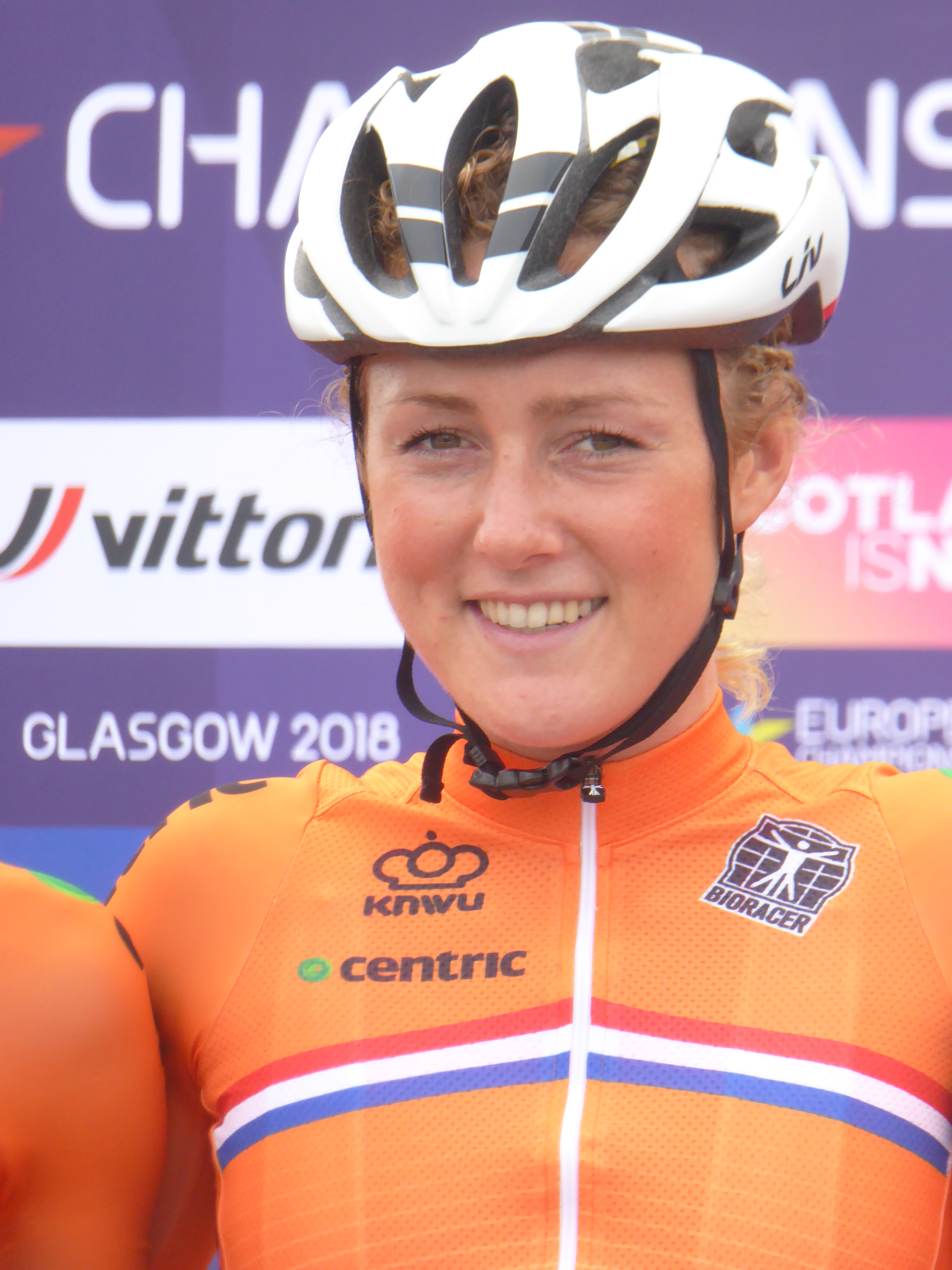 Floortje Mackaij (Netherlands), prior to the women's road race at the 2018 UEC European Road Cycling Championships in Glasgow.